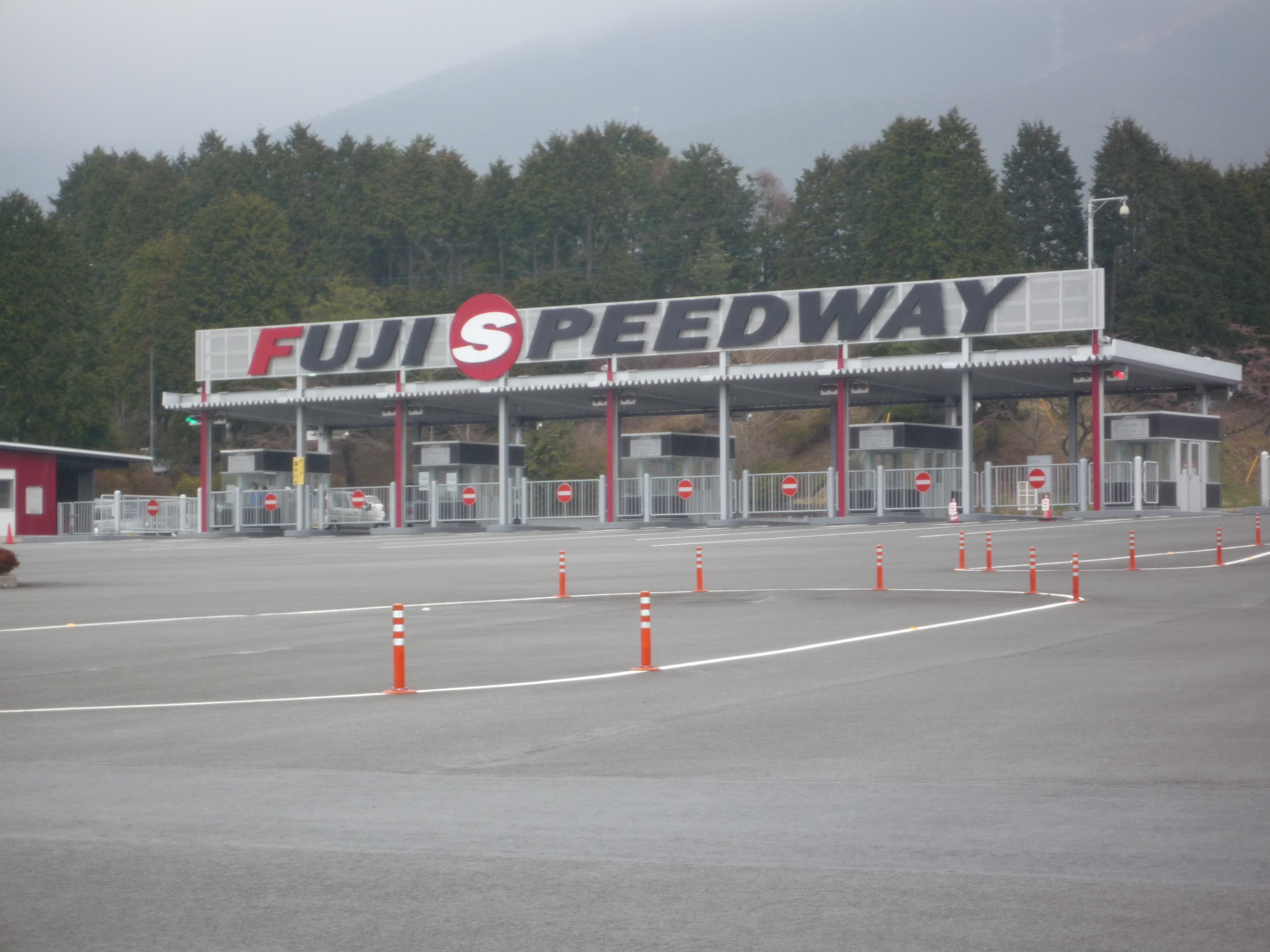 Omika, Oyama, Sunto District, Shizuoka Prefecture 410-1308, Japan